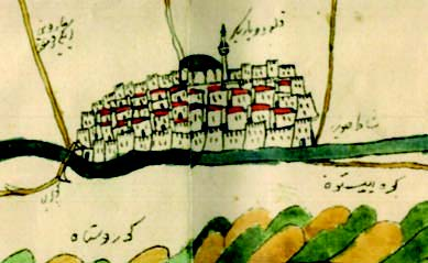 The cities of Hasankeyf (left) and Diyarbekir (right) on the Tigris river. South is at the top. Detail from a 17th-century map of the Tigris and Euphrates now owned by Shaikh Hassan bin Muhammed al-Thani of Qatar. The map may have been drawn by the Ottoman traveler Evliya Çelebi.